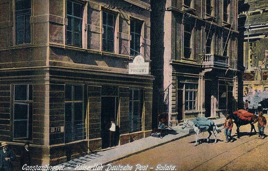 On the eve of WWI, there were three German post offices in Constantinople. The oldest one (picture) opened in the district of Galata in 1870, and was followed by branches in Stambul (1876), and Pera (1900). German post offices in the Ottoman Empire ceased to operate in September 1914. Austria-Hungary, France, Great Britain, Russia, Italy and Greece also operated their own post offices in a number of cities of the Ottoman Empire.